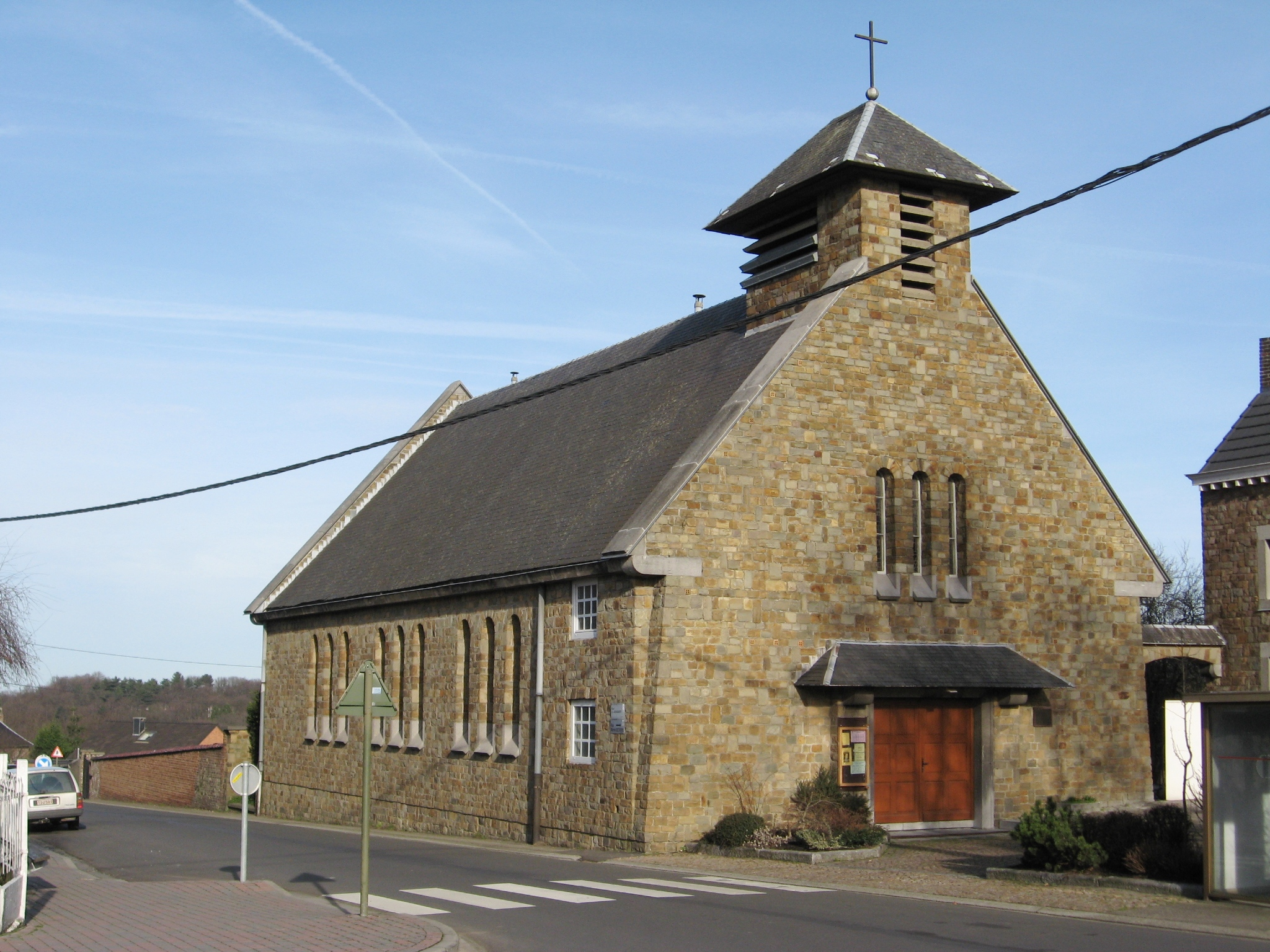 Church of the Assumption of Our Lady in Argenteau (Sarolay), Visé, Liège, Belgium